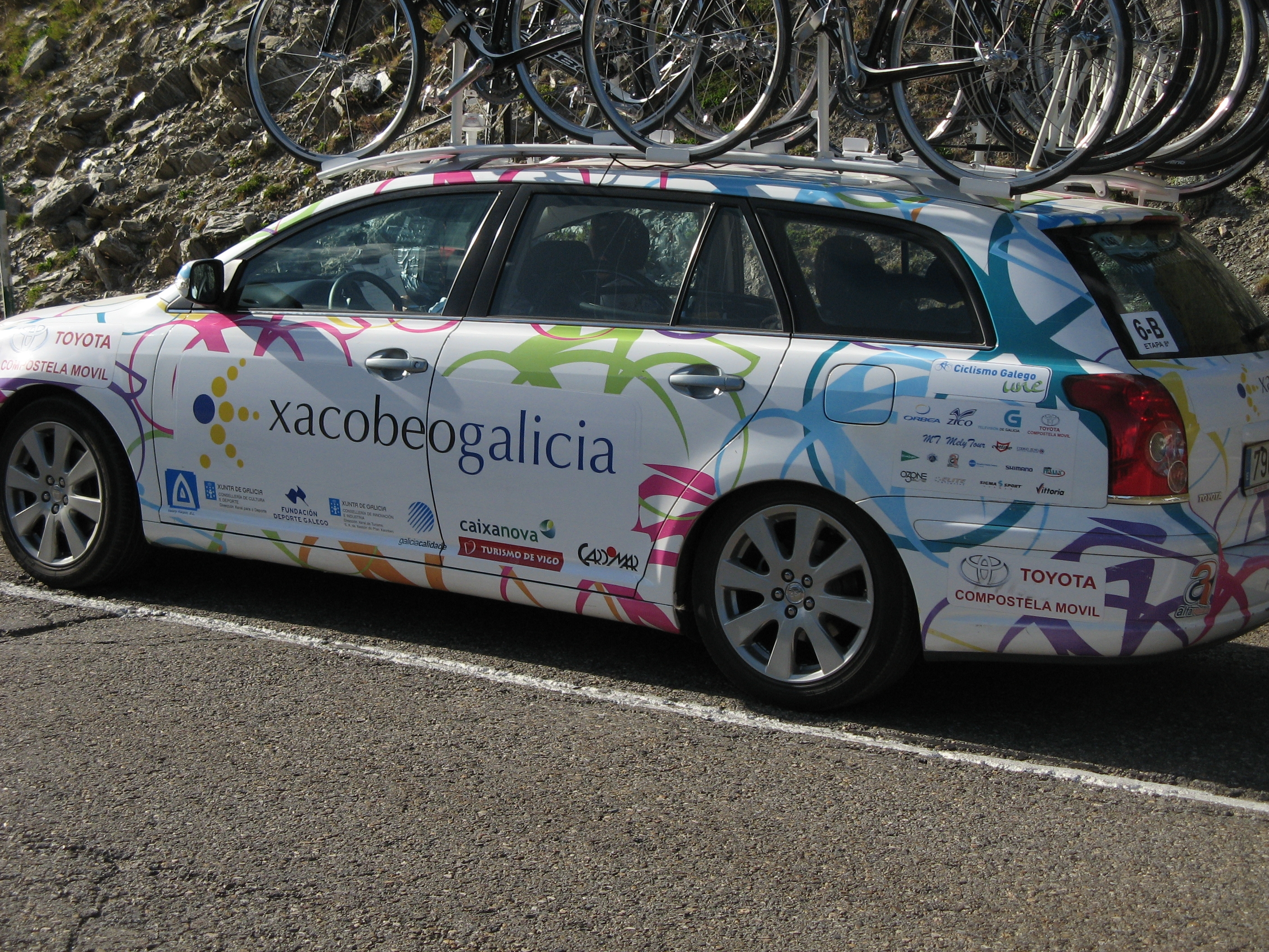 Xacobeo Galicia team car, 2008 Vuelta a España, 8th stage, Port de la Bonaigua, Spain.